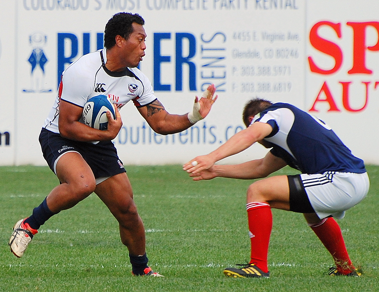 Andrew Suniula of the USA Eagles attempting to avoid a tackle against Russia during the 2010 Churchill Cup.